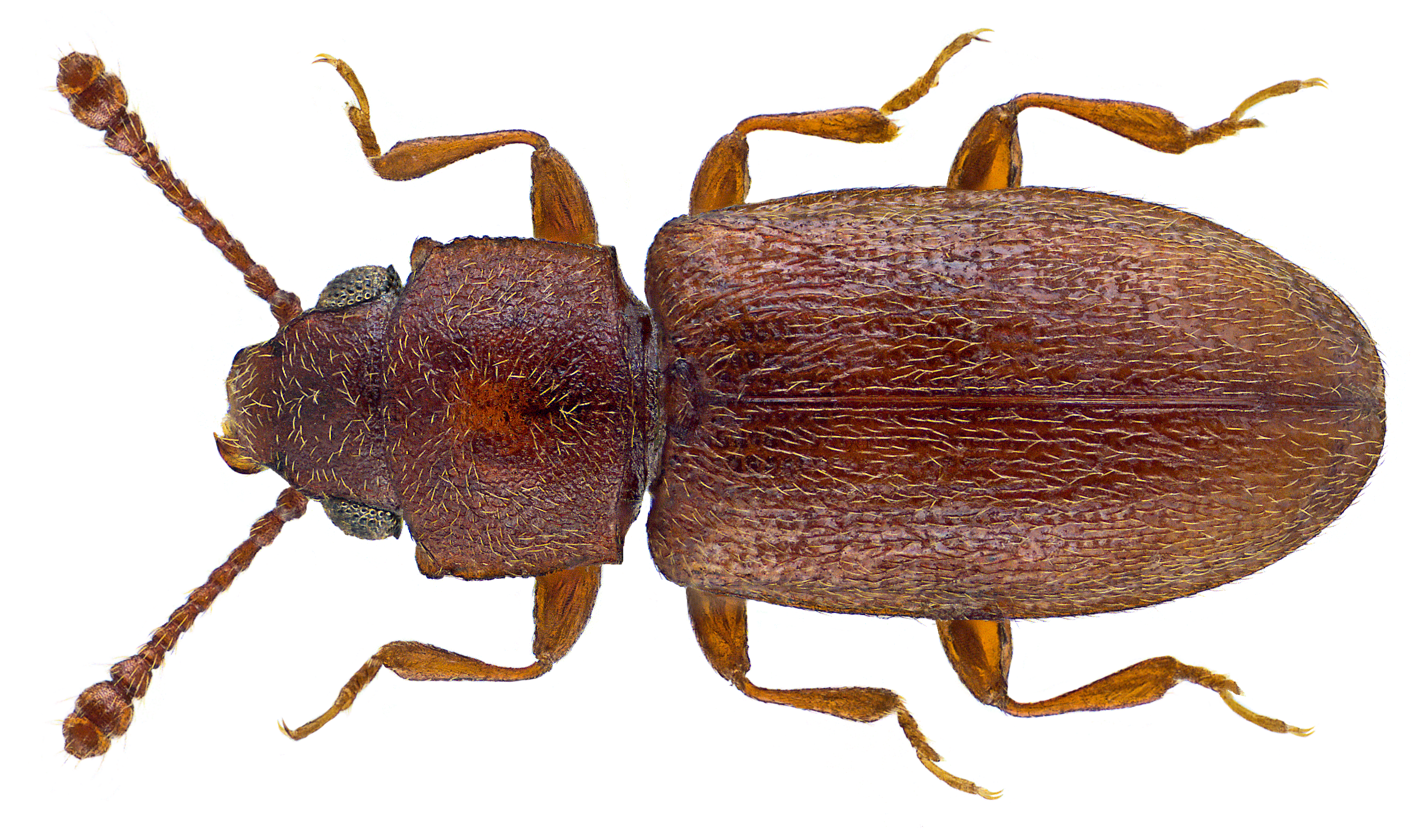 Family: Silvanidae (Cucujidae) Size: 2,2 mm ( 2,0-2,6 mm) Origin: spread worldwide Ecology: feeds on mold fungi Location: Germany, Upper Franconia, Stadtsteinach, Steinachtal leg.det. U.Schmidt, 3.VII.2001 Photo: U.Schmidt, 2014